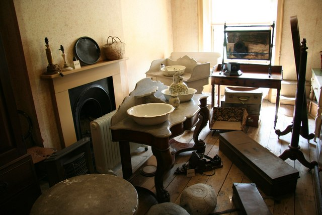 Servant's room When Brodsworth Hall was given to English Heritage in 1990, much of the accumulated clutter and obsolete furniture was stored in the service wing where much of it remains today